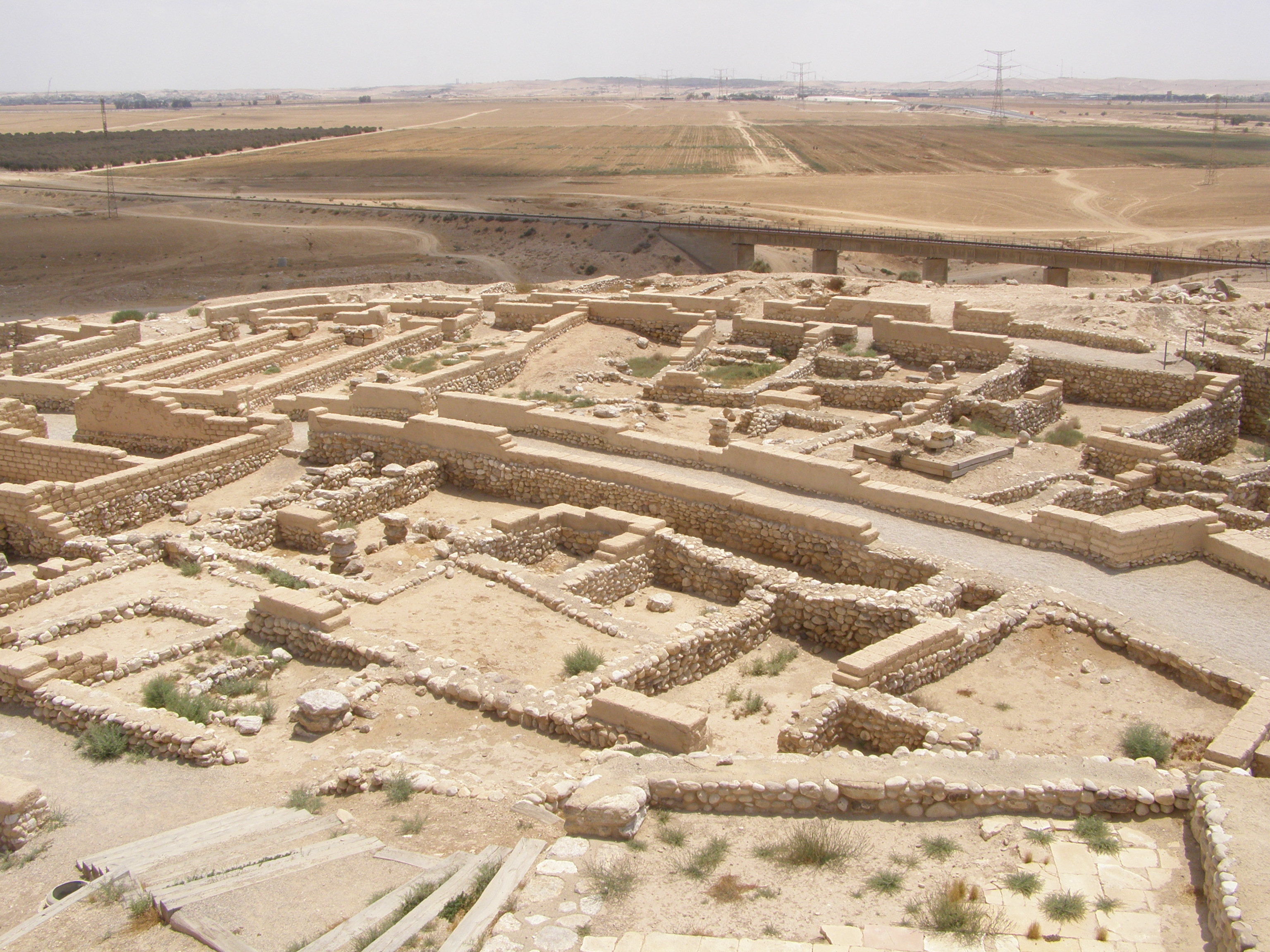 Tel Be'er Sheva